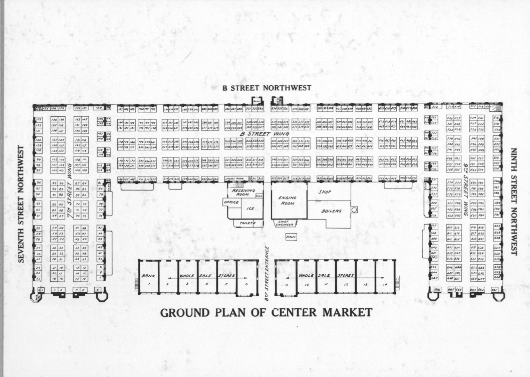 Original Caption: Plan of the Interior of Center Market, 06/1924 U.S. National Archives’ Local Identifier: 83-G-8993 From: Photographic Prints Documenting Programs and Activities of the Bureau of Agricultural Economics and Predecessor Agencies, compiled ca. 1922 - ca. 1947, documenting the period ca. 1911 - ca. 1947 Created By: Department of Agriculture. Bureau of Agricultural Economics. Division of Economic Information. (ca. 1922 - ca. 1953) Production Date: 06/1924 Persistent URL: Repository: National Archives at College Park - Still Pictures (RD-DC-S) For information about ordering reproductions of photographs held by the Still Picture Unit, visit: Reproductions may be ordered via an independent vendor. NARA maintains a list of vendors at